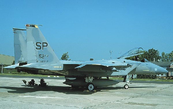 F-15C Serial 80-052, 51st Fighter Wing, Spangdahlem Air Base Germany Source: United States Air Force